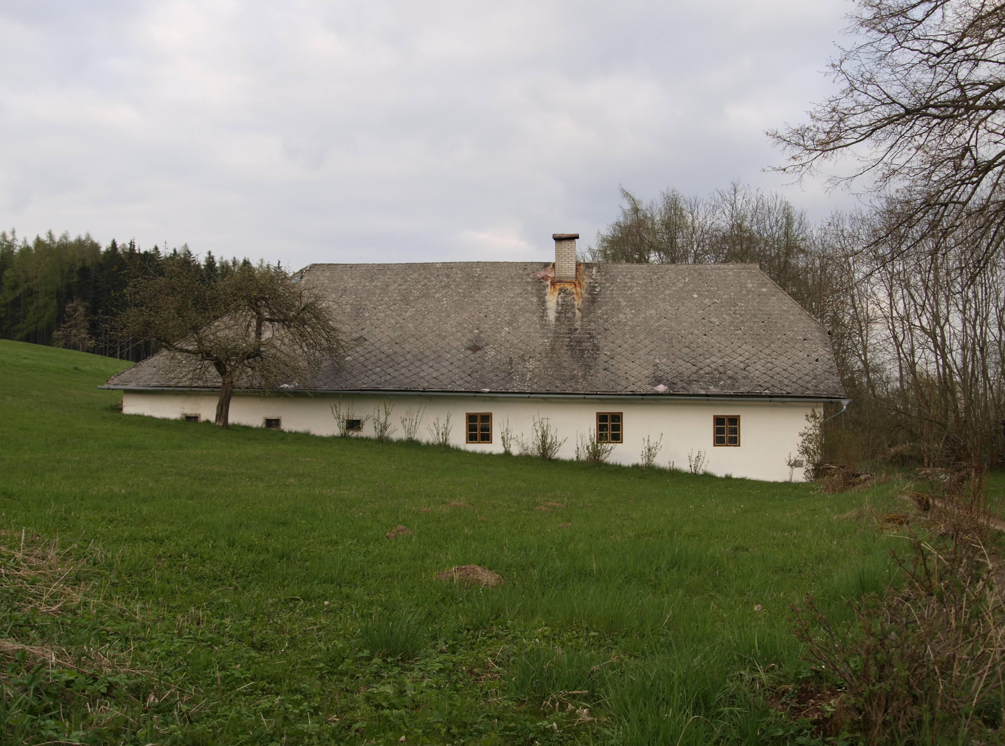 House no. 12 in Rok municipality, Sušice, Klatovy District, Czech Republic.